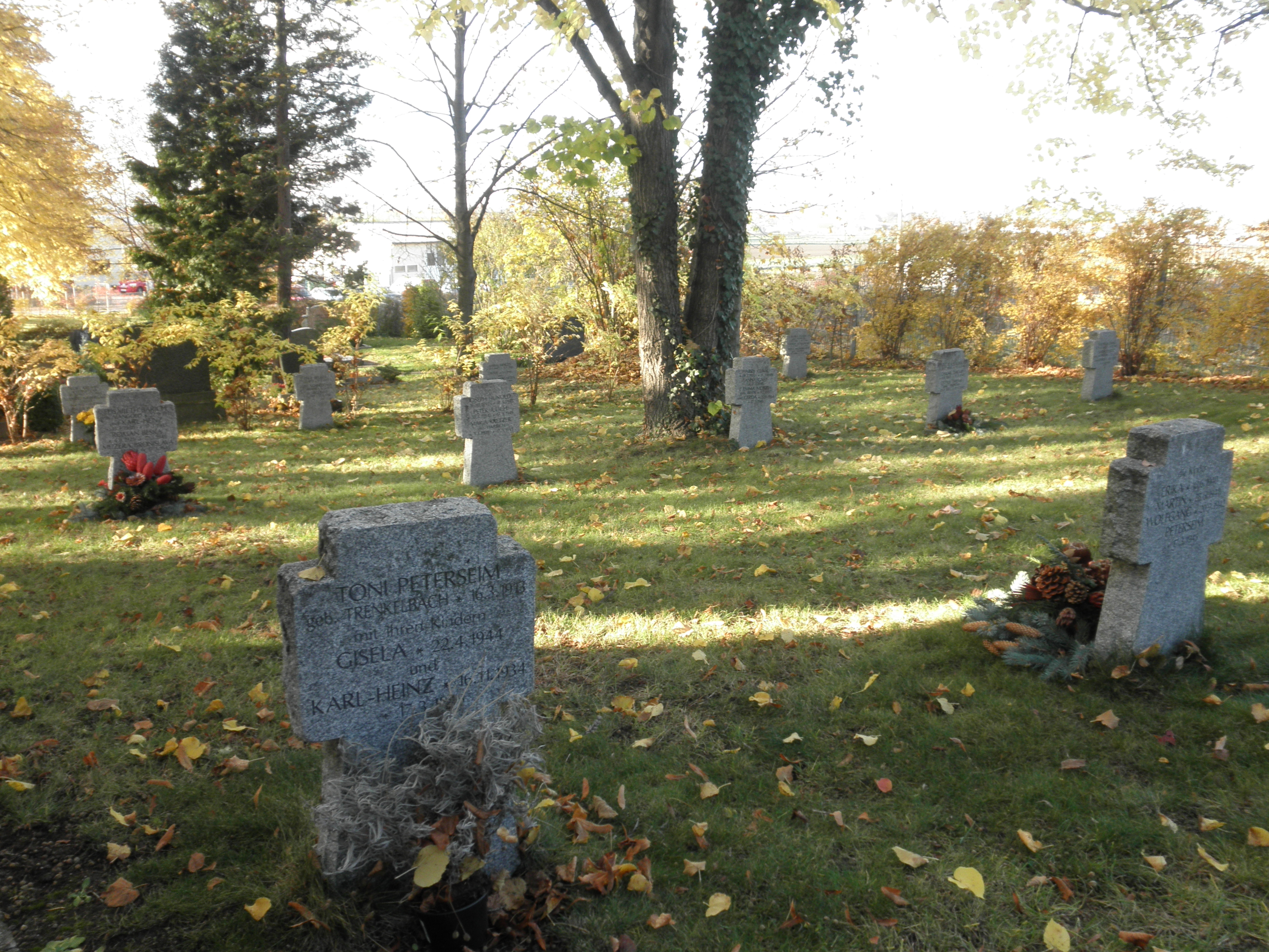 Cemetery with Victims of Air raid 1945 in Dittelstedt Thuringia